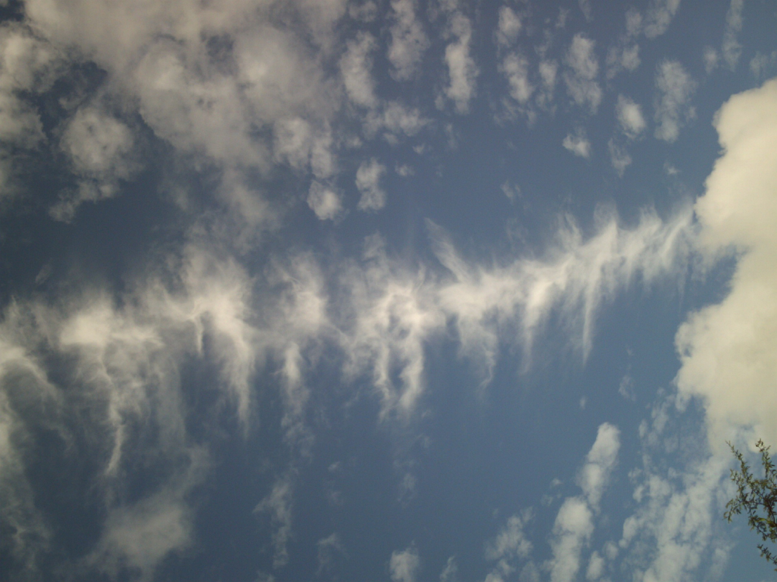 Cirrus intortus vertebratus clouds from Venezuela